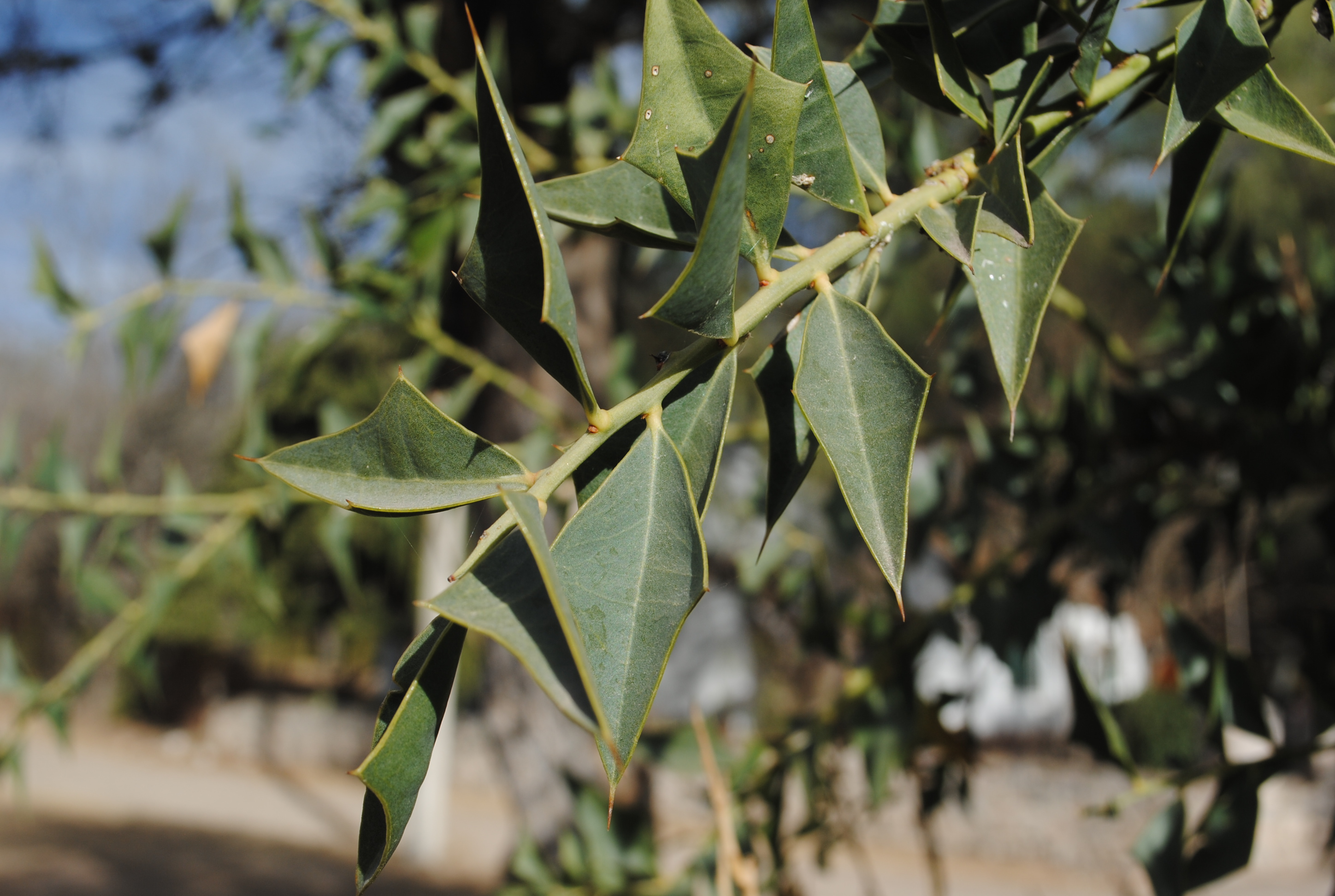 Typical Jodina rhombifolia leaves